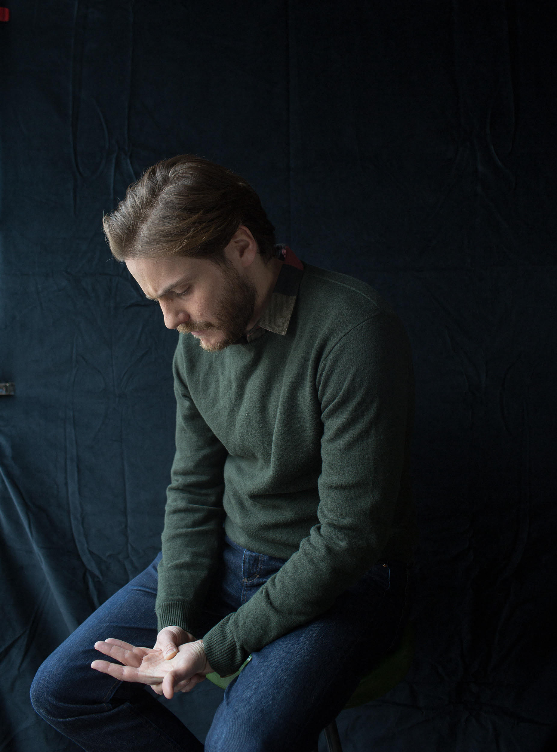 Daniel Brühl portrait by Oliver Mark, Berlin 2015